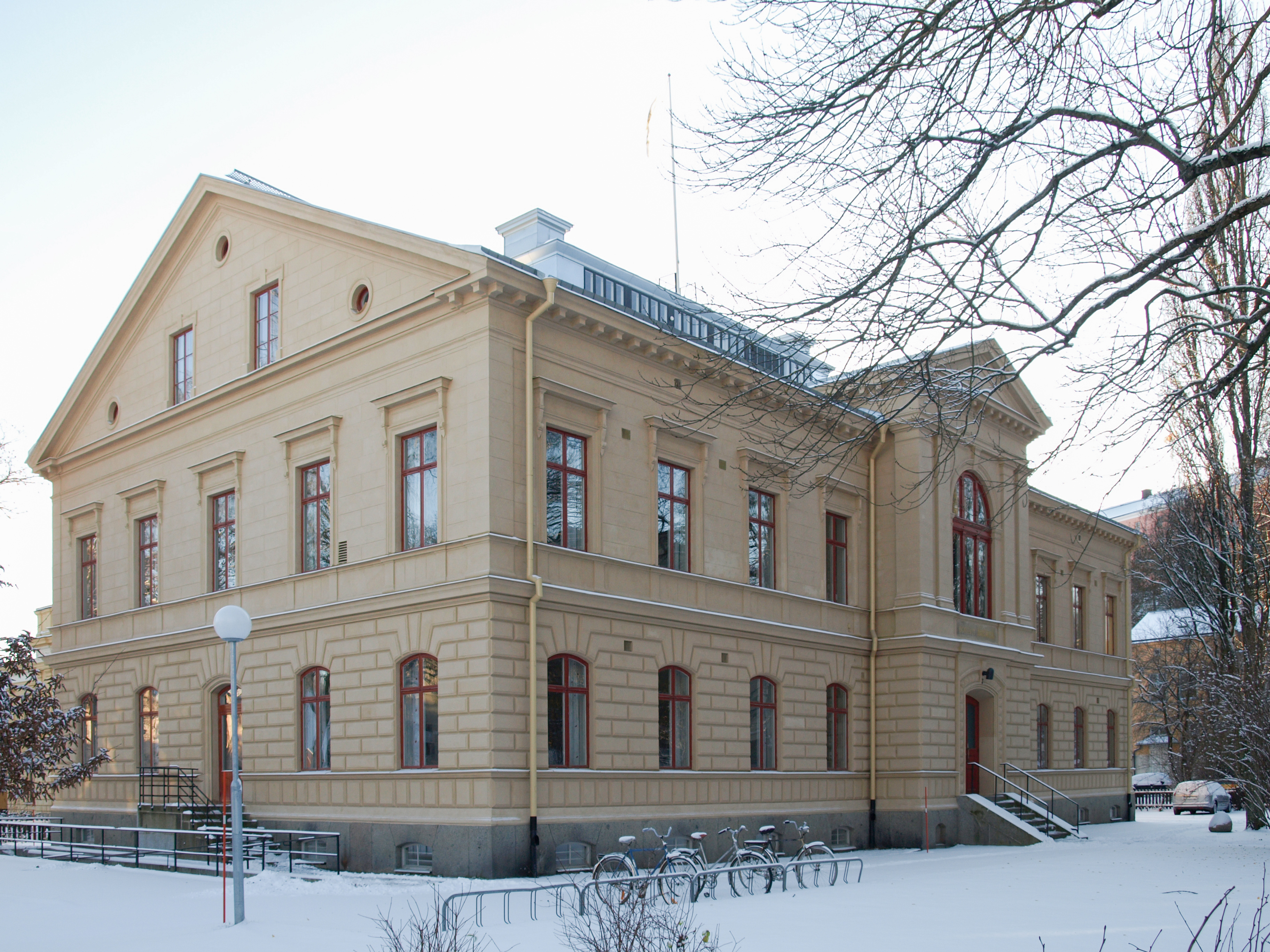 The house Regnellianum in Uppsala, Sweden. Previously used by Uppsala University.